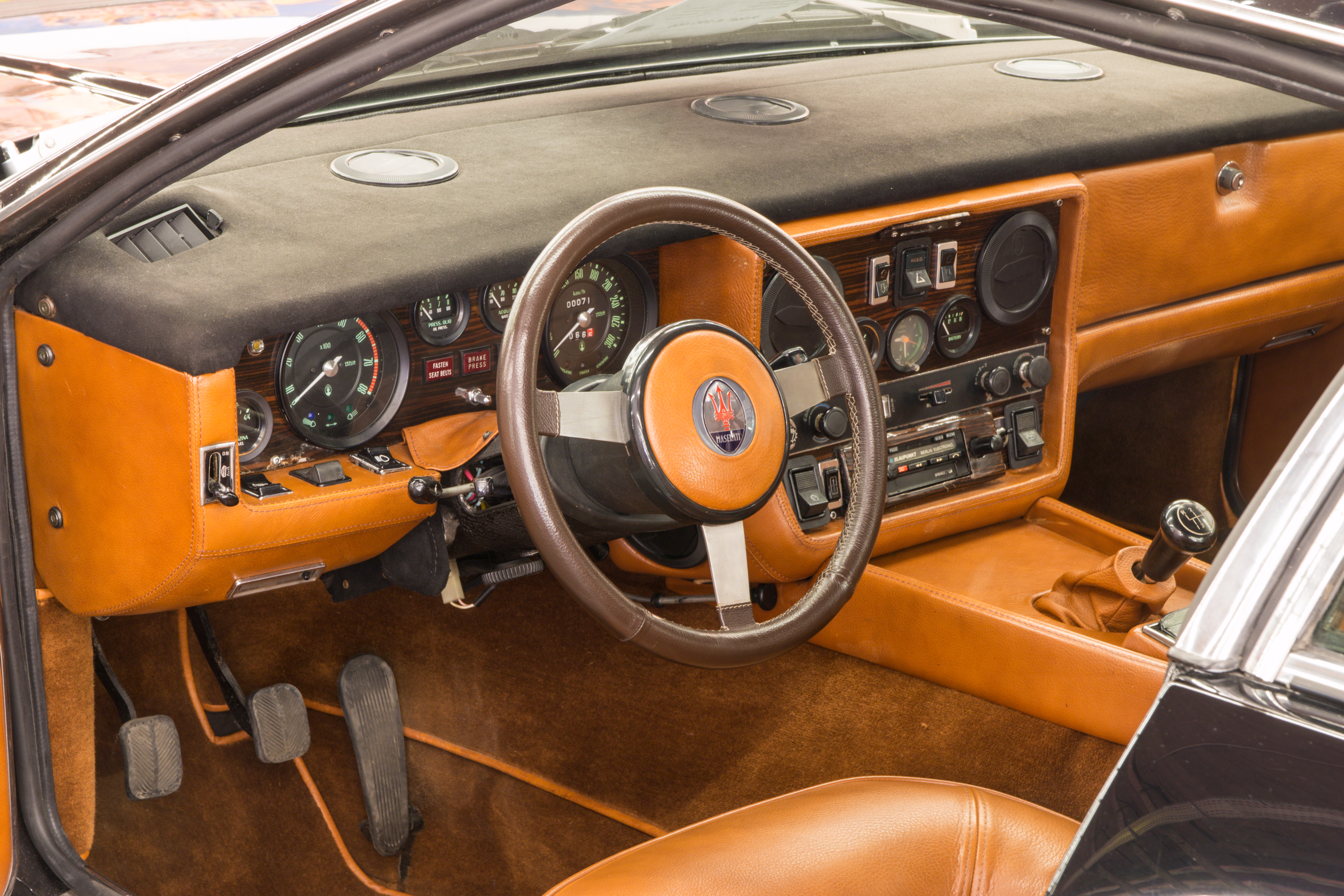 Maserati Khamsin interior